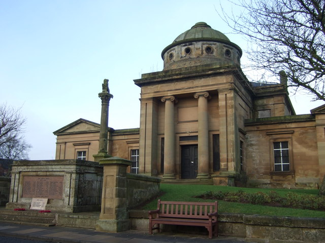 Greenlaw War Memorial I choose to focus on the structure to the left of the bench seat, as the future fate of the Scottish Greek Revival architecture behind it is still uncertain.